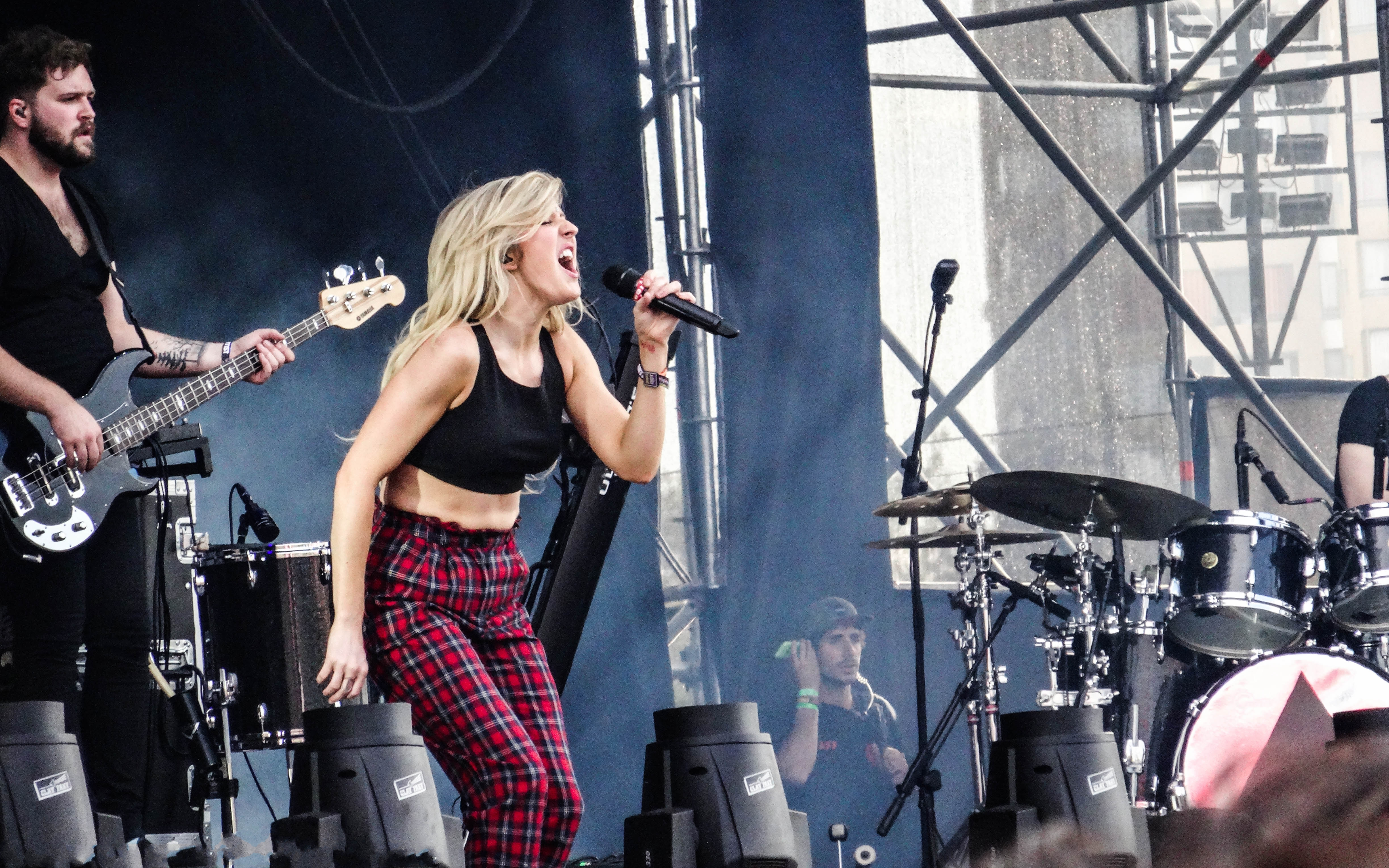 Ellie Goulding at Lollapalooza Chile 2014